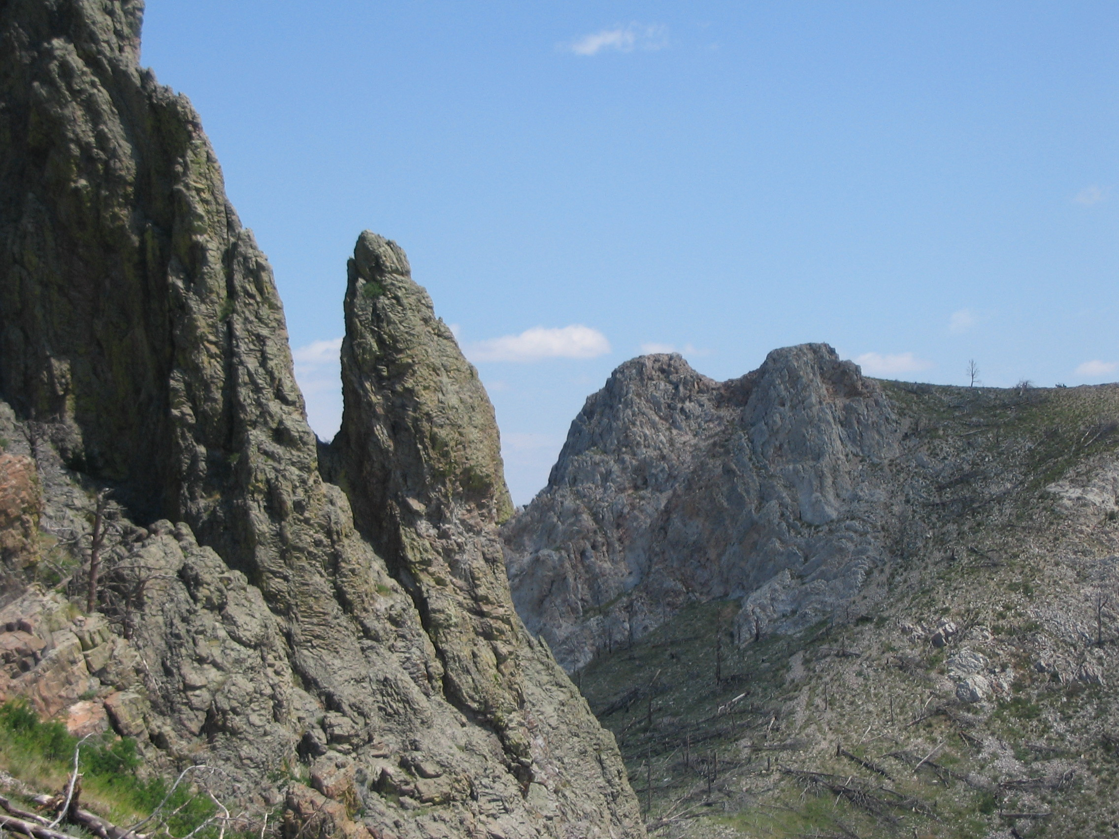 Photo 3, On the Butte half way up.